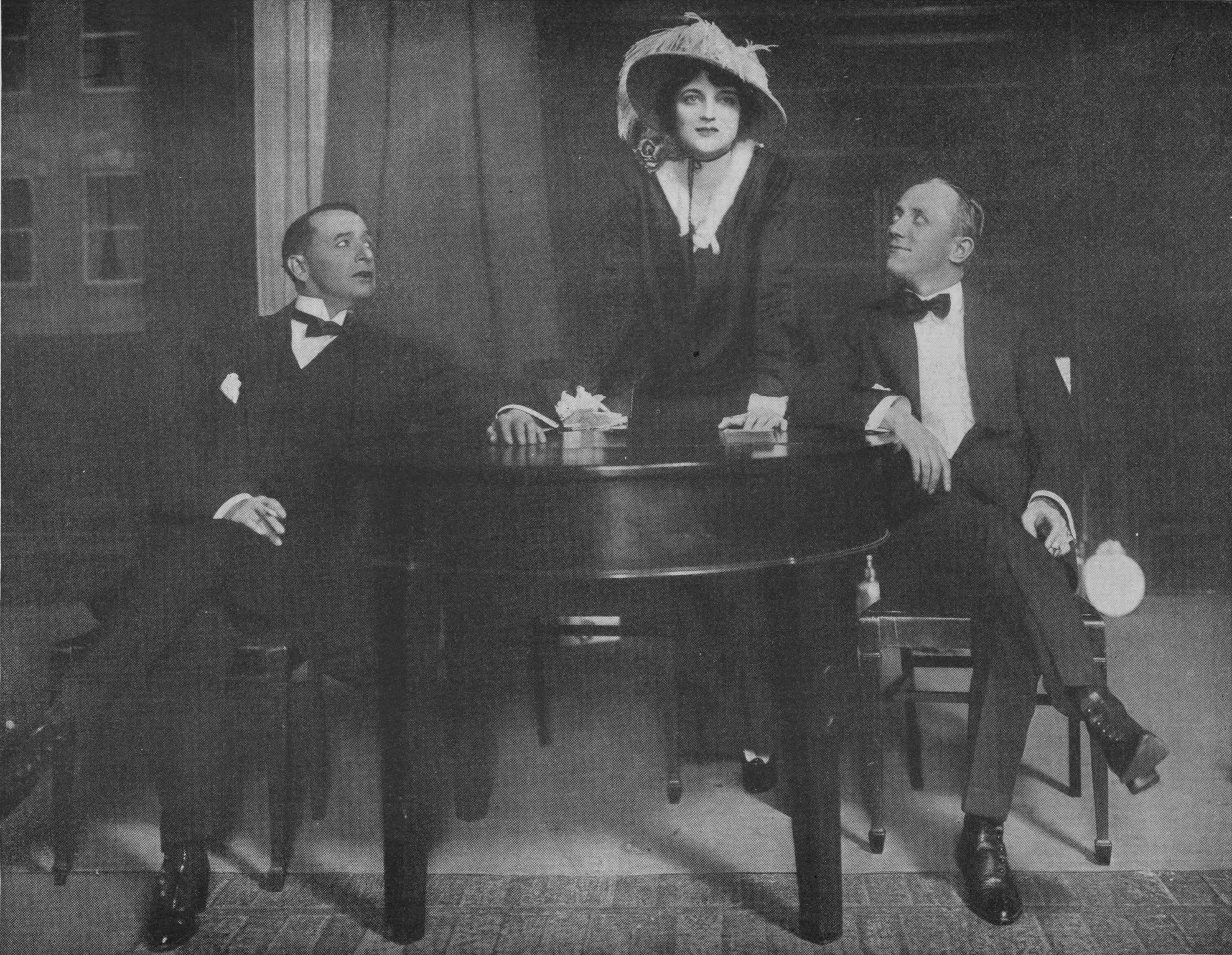 William Collier, Peggy Wood, and George M. Cohan in Hello, Broadway!